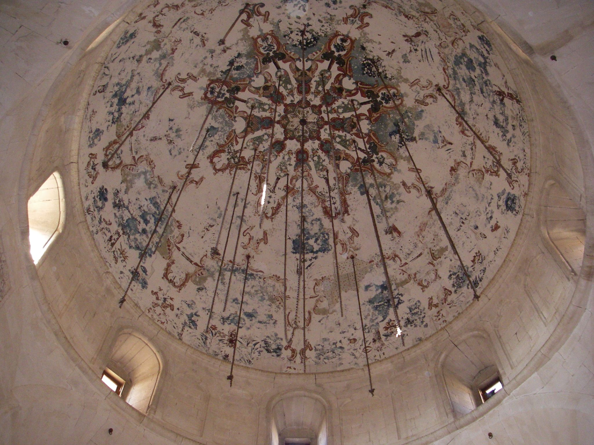 inner part of the ishak pasha palace